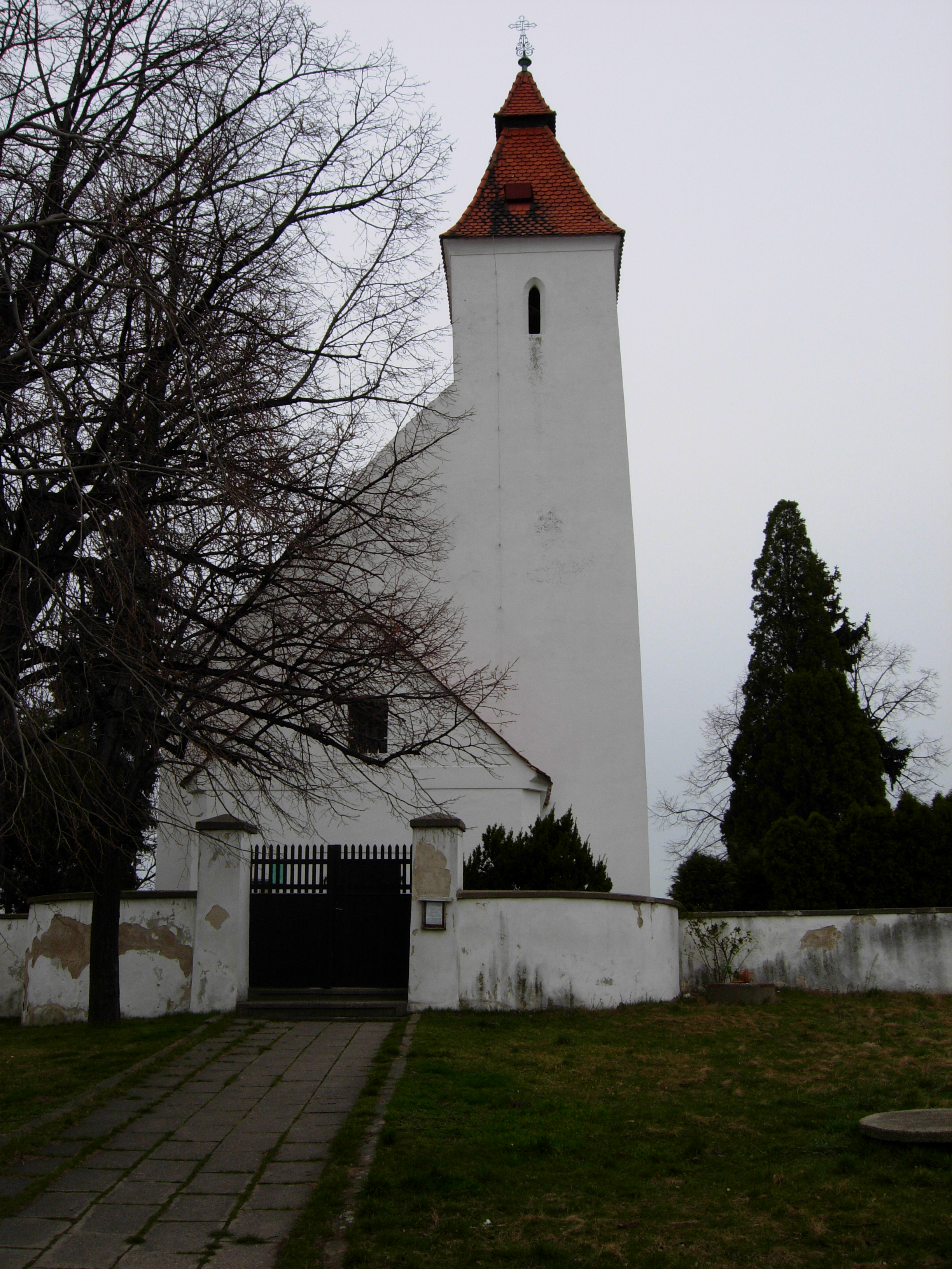 Church of Nativity of St John the Baptist in Hovorčovice, Prague-East District.